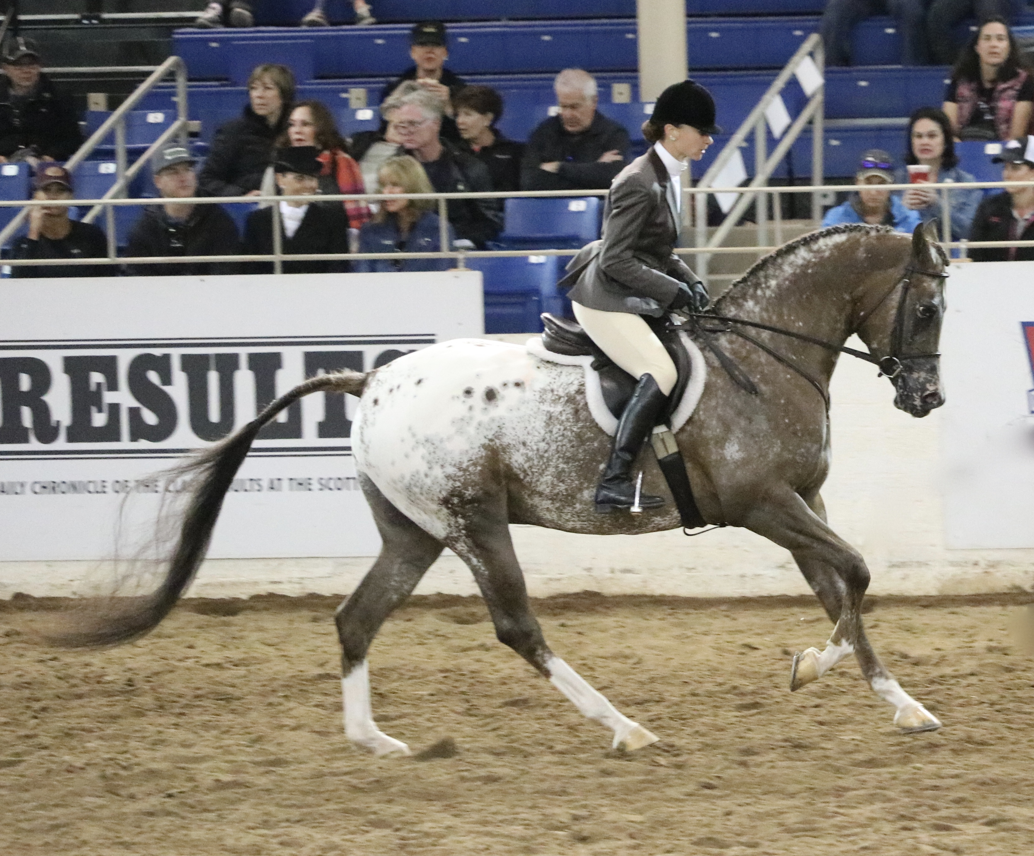 A partbred Arabian/Appaloosa (AraAppaloosa or Araloosa) at the 2017 Scottsdale Arabian Horse show